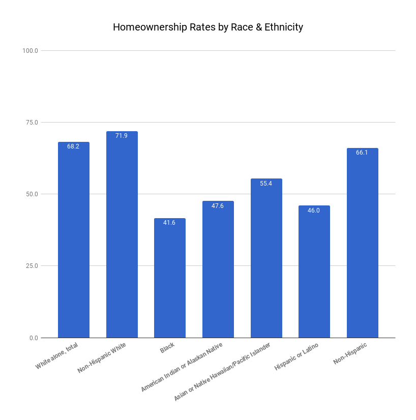 US Homeownership by race 2016, from Census 2016Q4